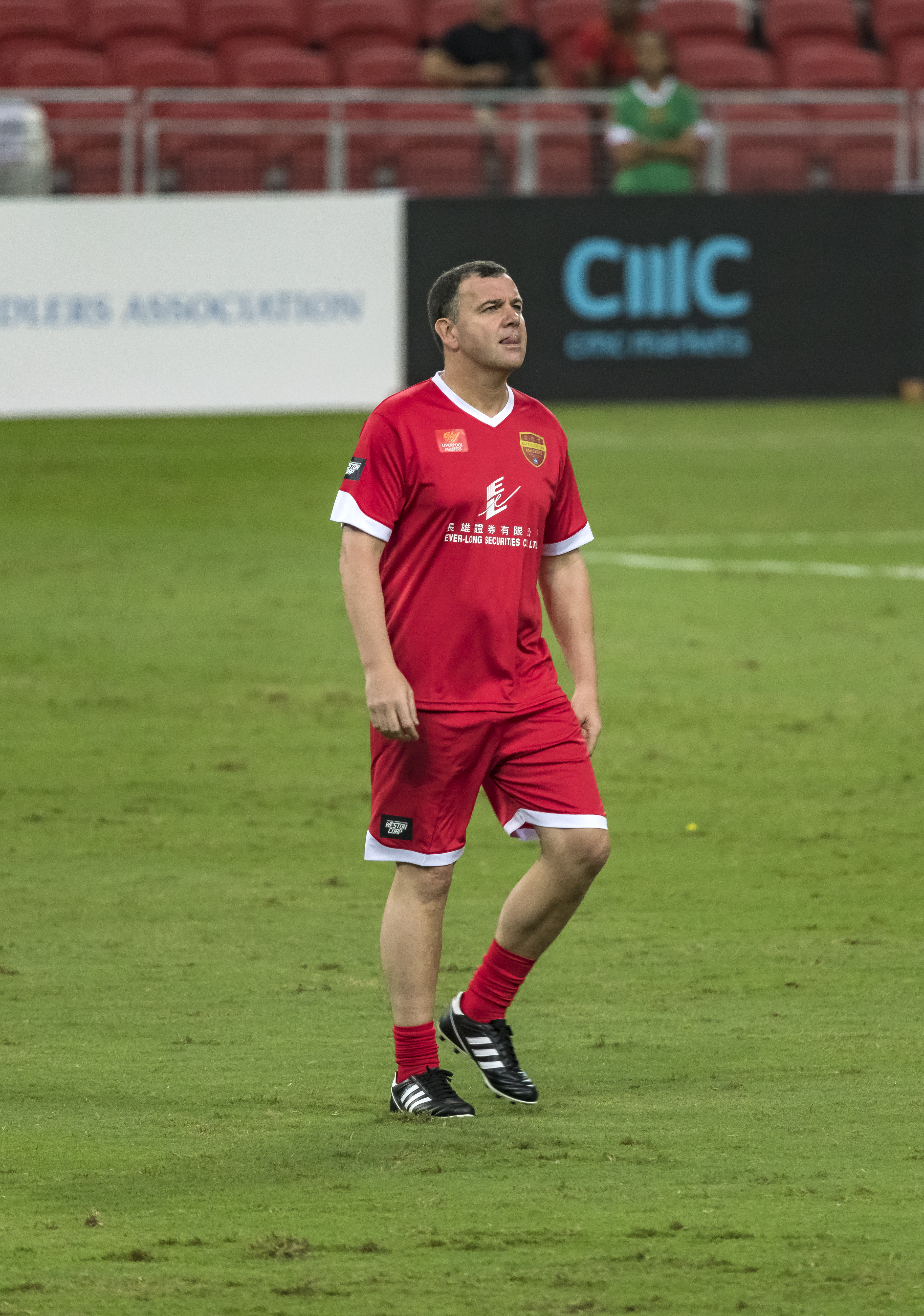 steve harkness liverpool masters singapore national stadium 2017